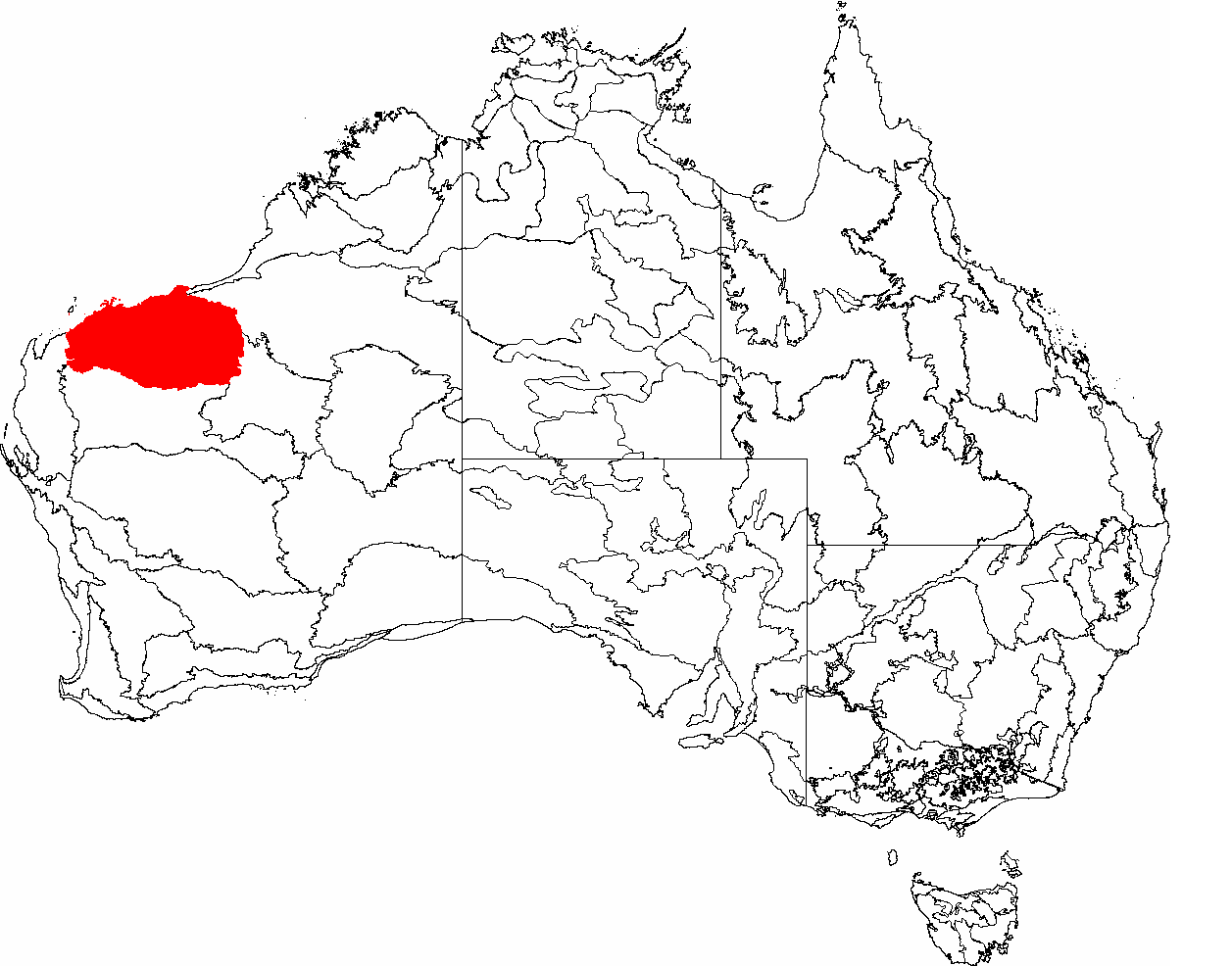 This is a map of the Interim Biogeographic Regionalisation of Australia (IBRA), with state boundaries overlaid. The Pilbara region is shown in red.